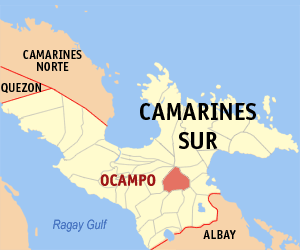 Map of Camarines Sur showing the location of Ocampo